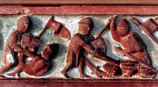 Lithuanians fighting Teutonic Knights.Evolvent of relief.